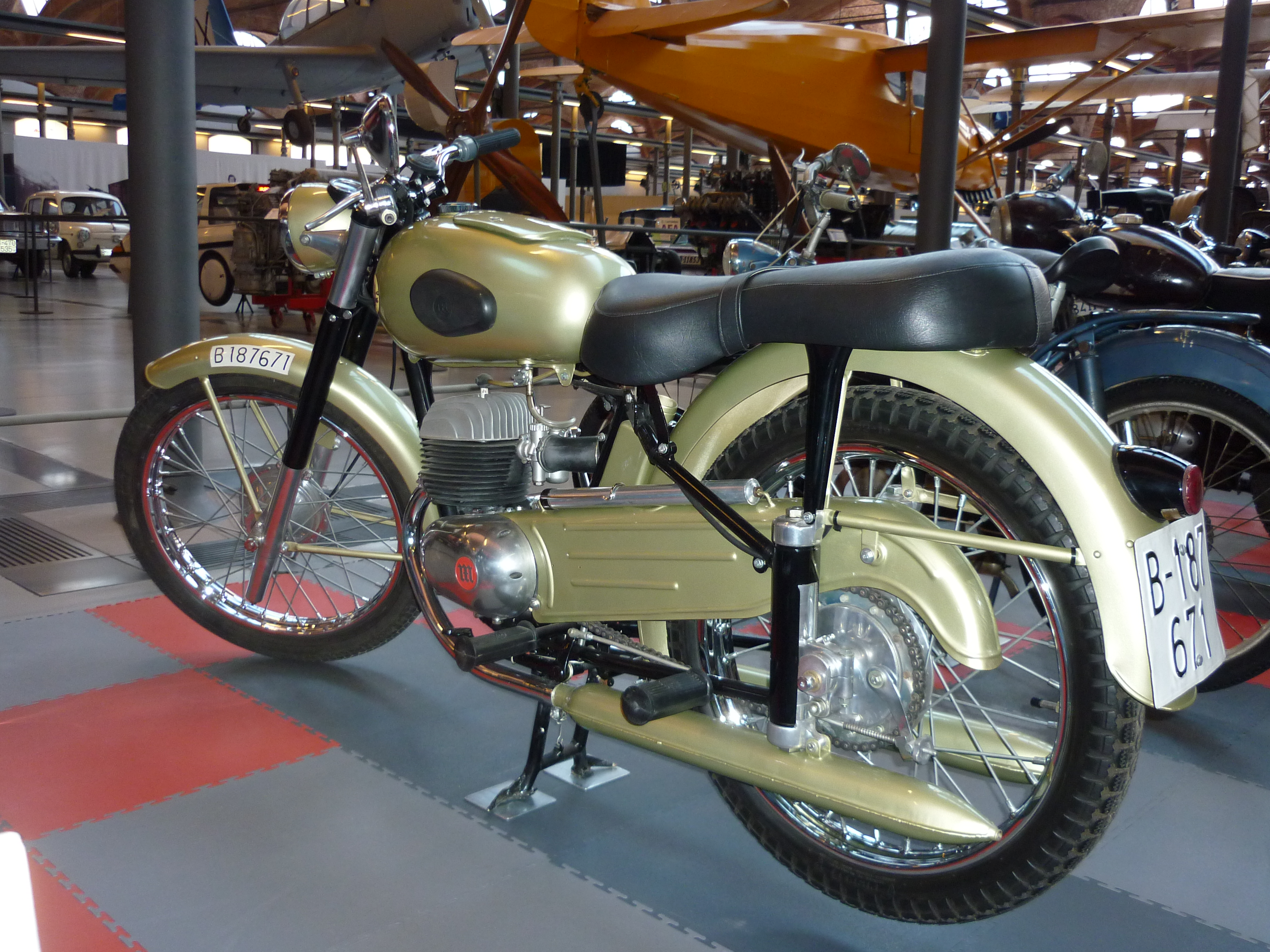 Montesa Brio 81 125cc (1957)